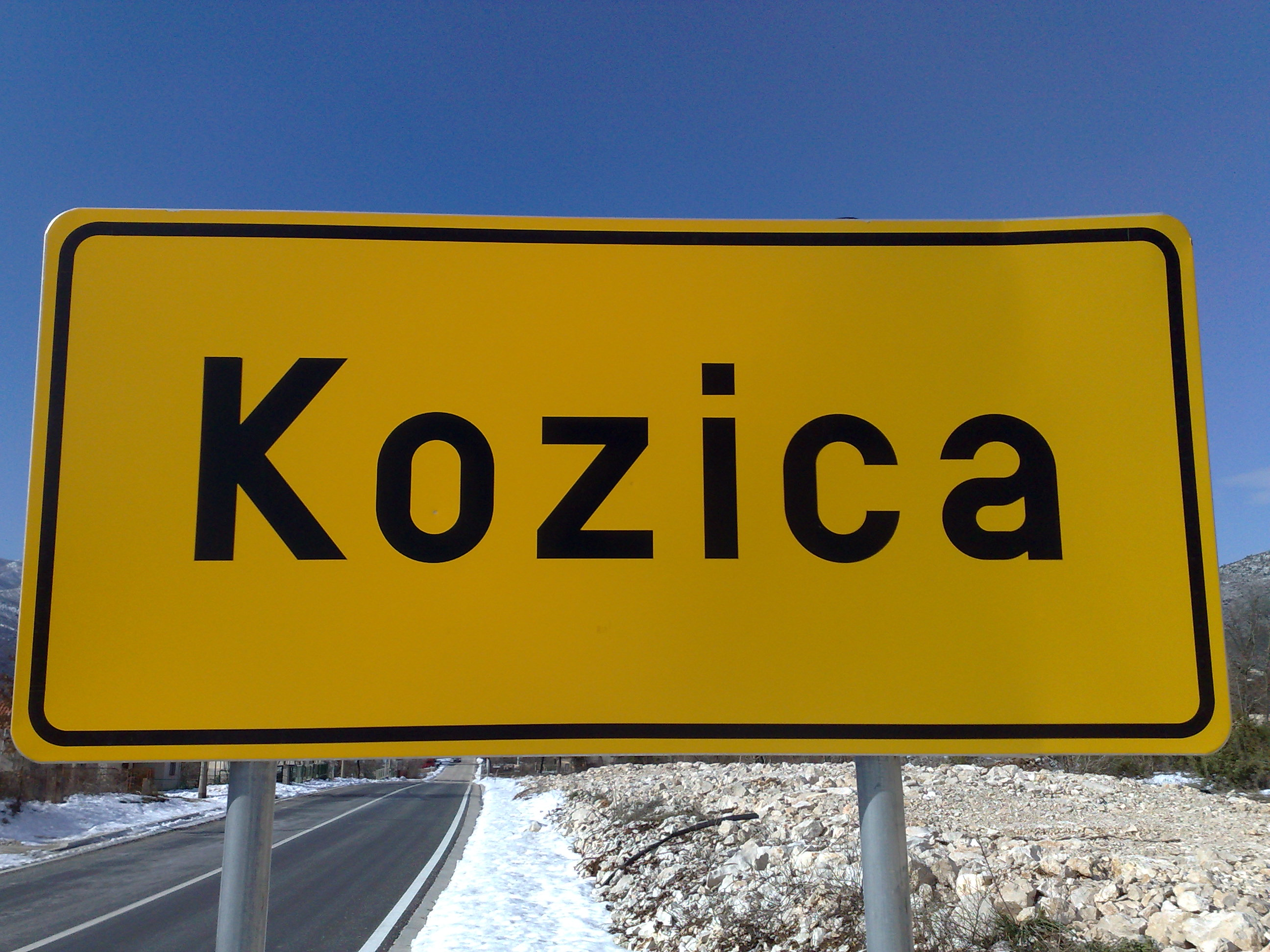 Welcome signpost for Kozica in Split Dalmatia County , Croatia.